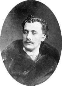 Prince Vasily Alexandrovich Dolgorukov